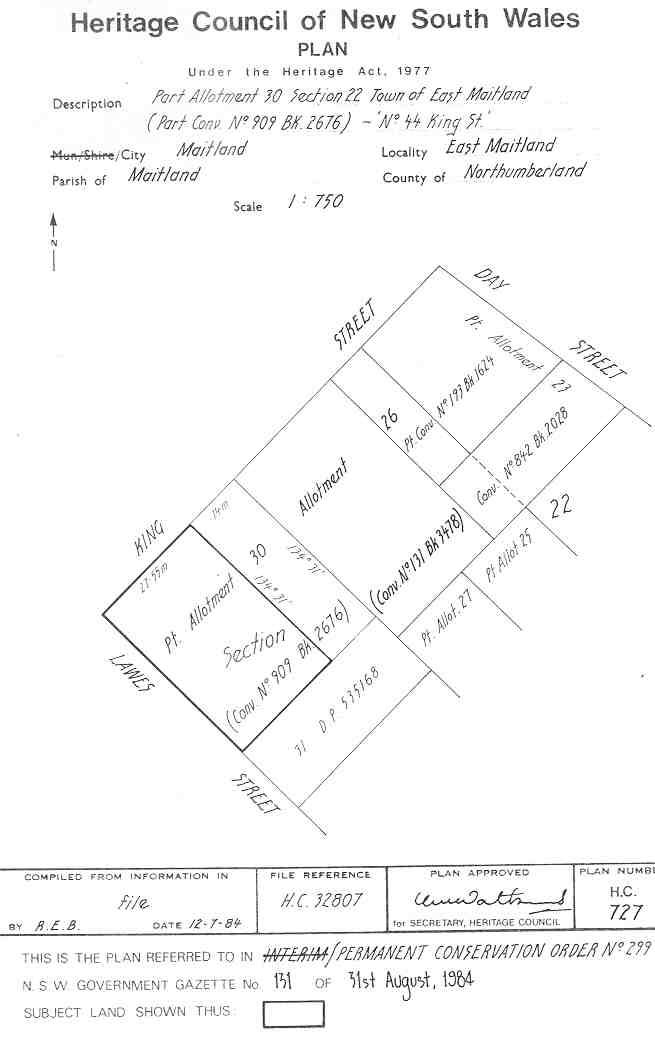 Woodlands, East Maitland: PCO Plan Number 299